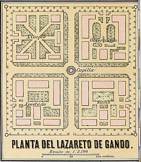 Gando Pesthouse ("lazareto") in Gando Peninsula. Telde, Gran Canaria (Canary Islands, Spain). Designed by Juan de Leon y Castillo. Map of 1896.